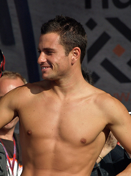 Auctions the shirt off his back. Riders For Health Day of Champions 2009 Donington Park 23rd July 2009